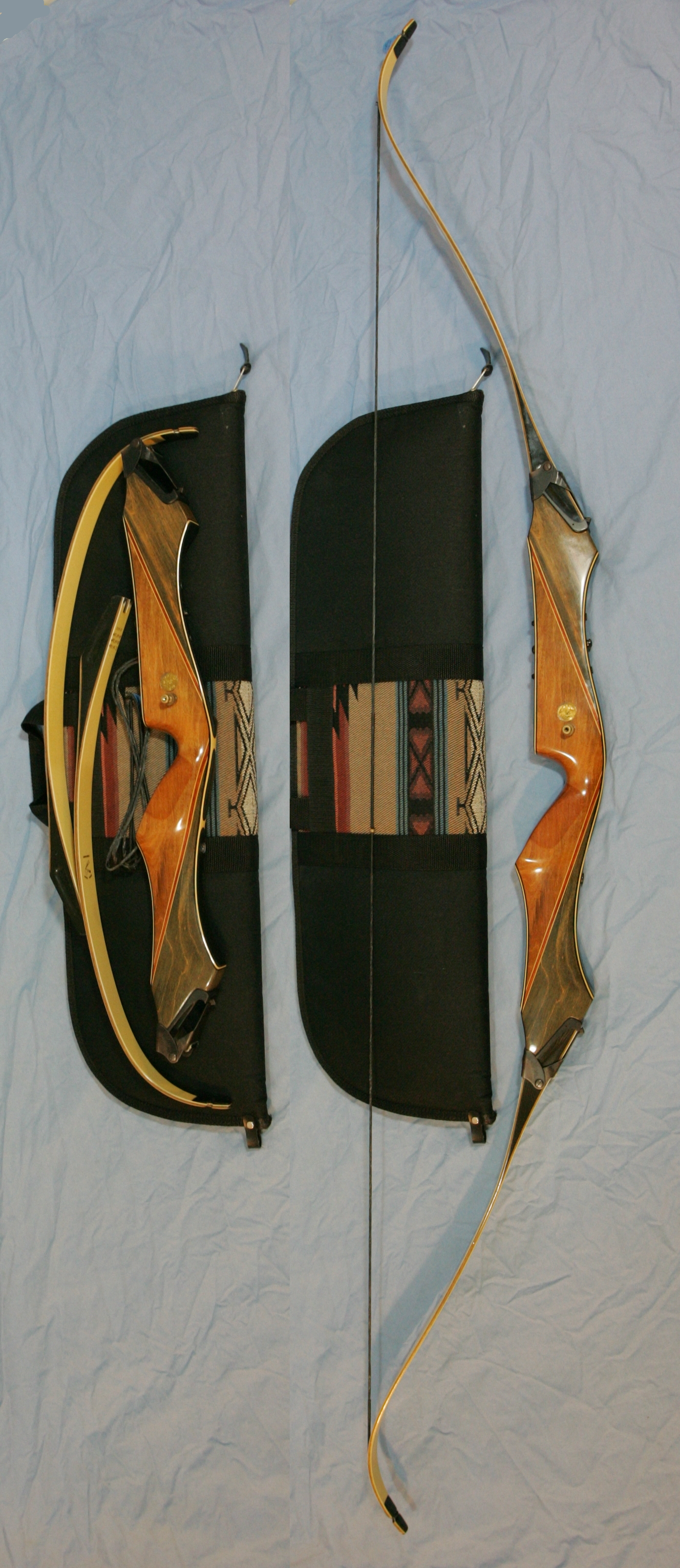 This is a TakeDown bow manufactured by Bear Archery. The bow has a C riser and number 3 limbs. The AMO length in this configuration is 70 inches and draw 32 pounds at 28 inches.